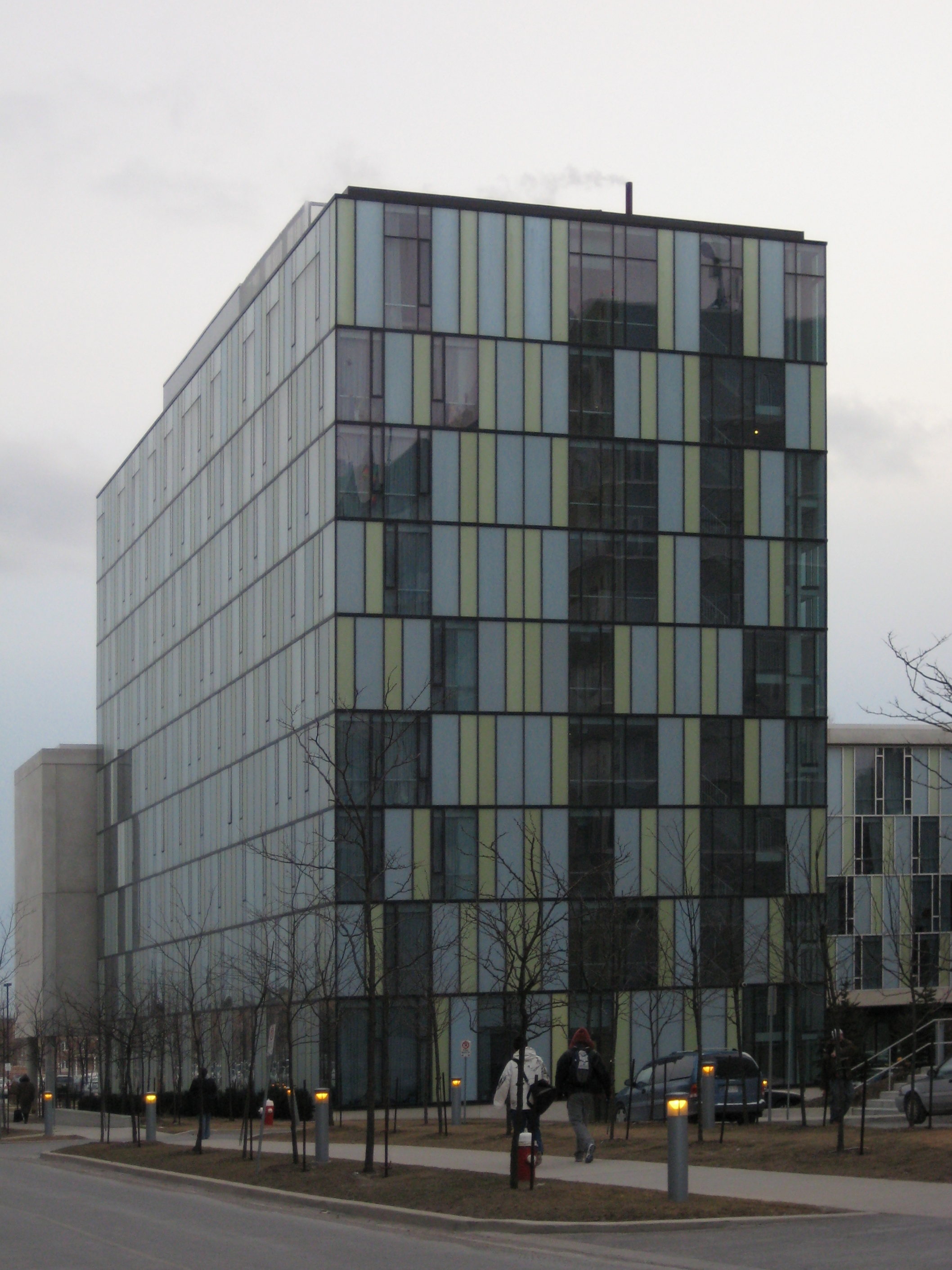 The Pond Road Residence